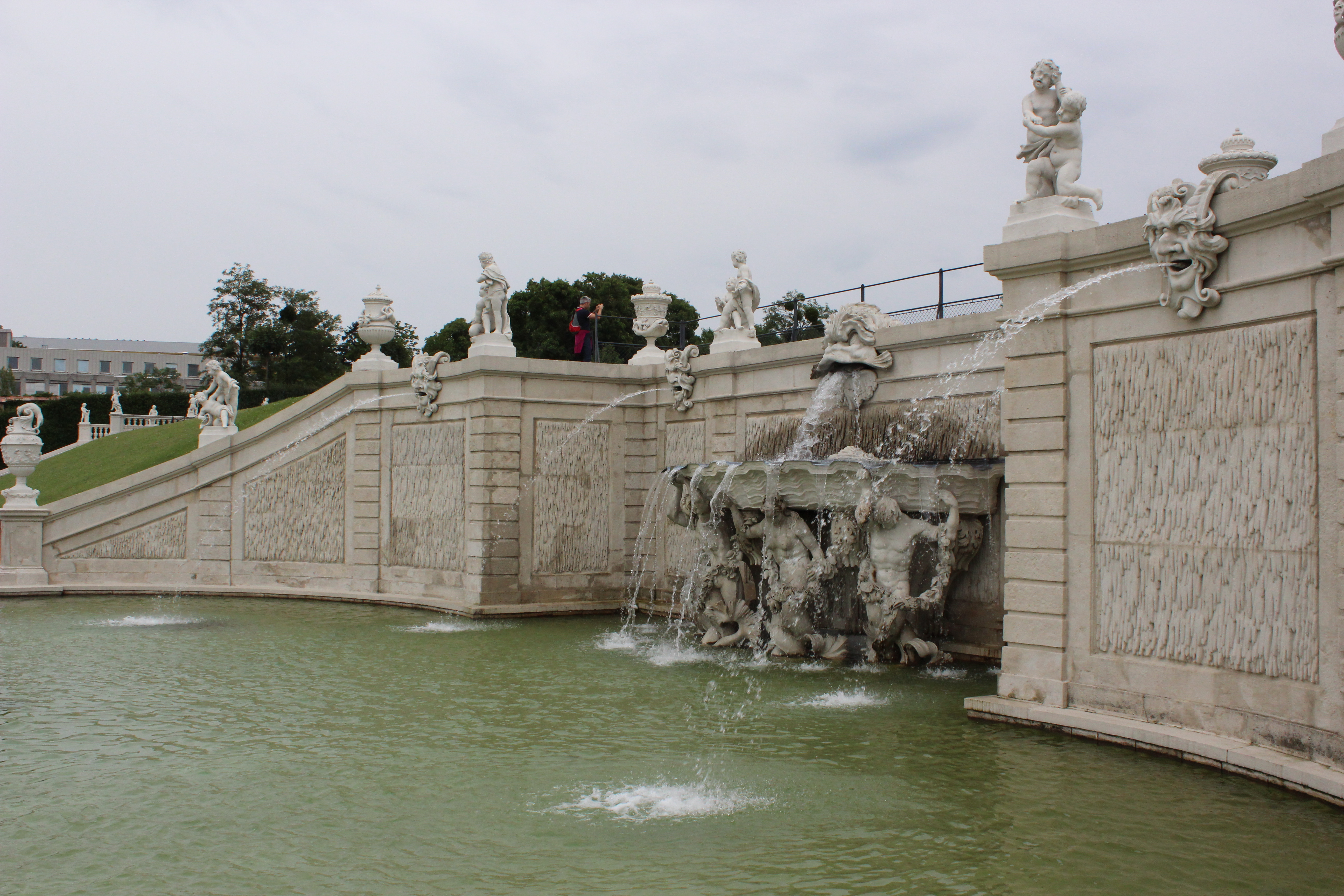 Fountain in the garden of the Belvedere Palace (Vienna, Austria).